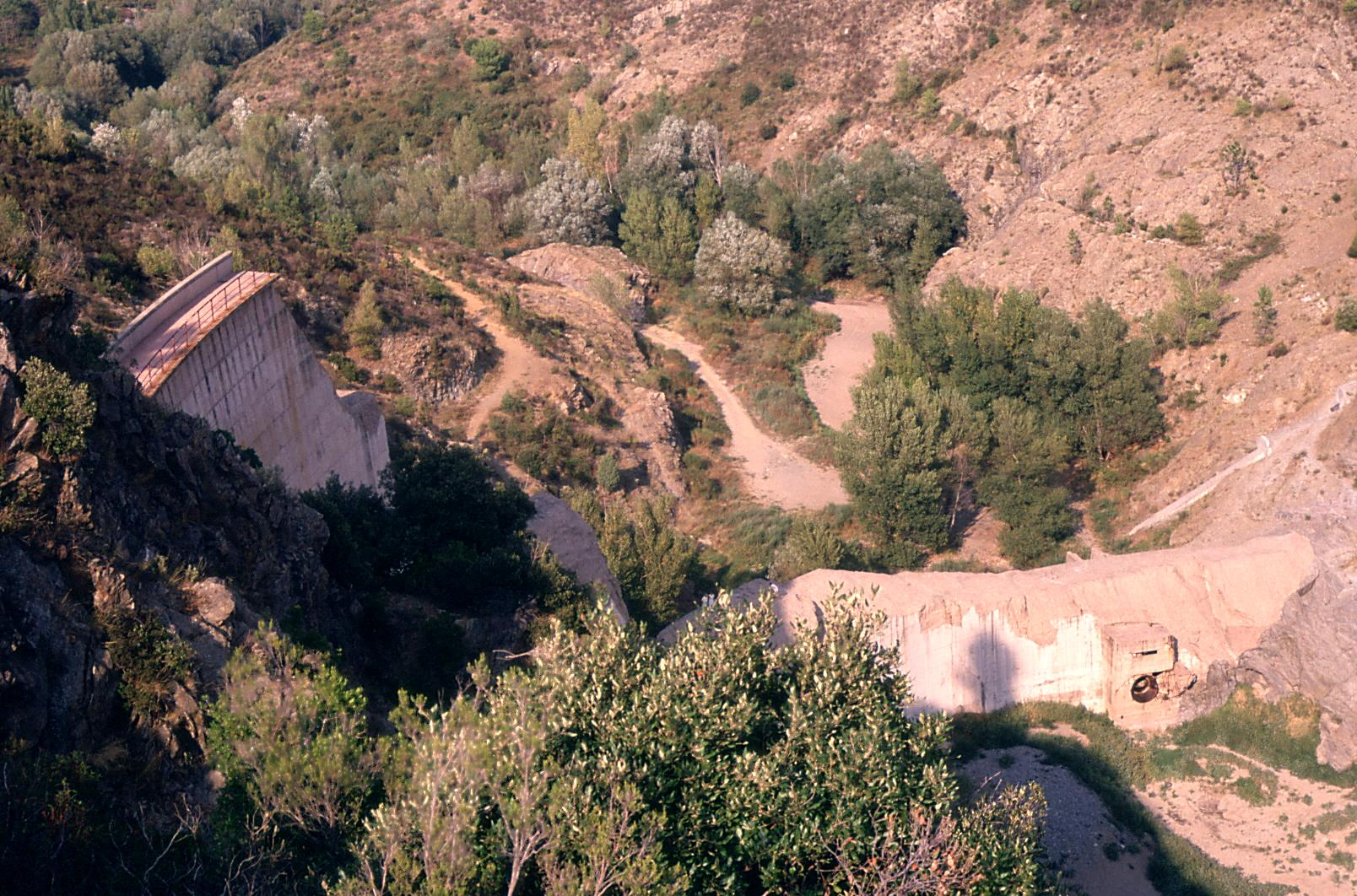 Ruins of Malpasset Dam, France. The dam breached in 1959, there were 400 dead.